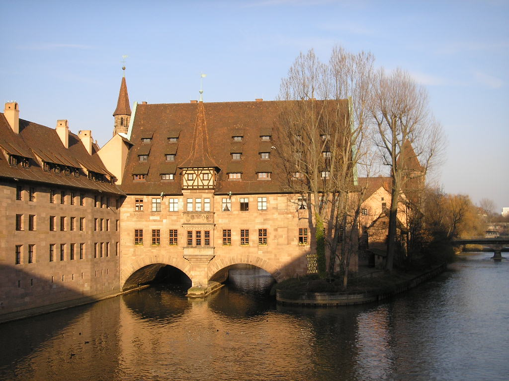 Image of the Heilig-Geist-Spital in Nuremberg, Bavaria.